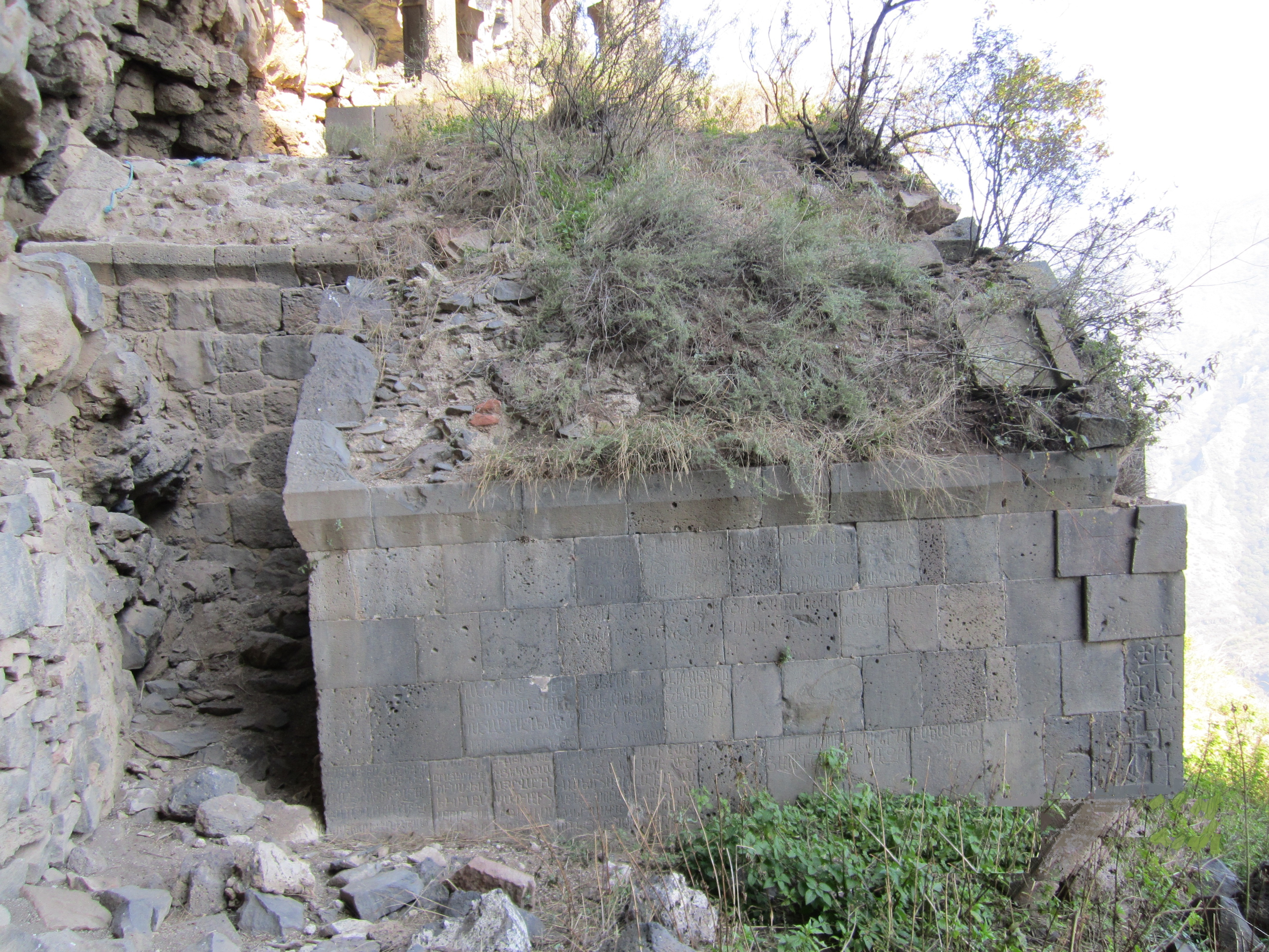 Photo by Arthur Papoyan 112/10